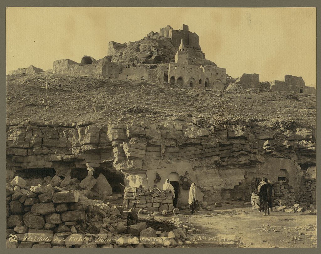 Berber cave dwellings on hill, Douirat, southern Tunisia.